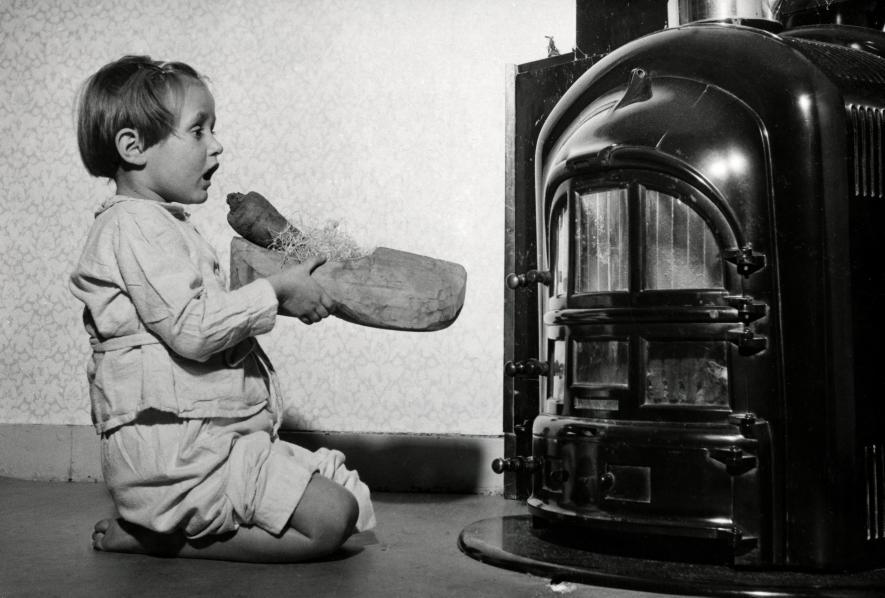 Nationaal Archief/Spaarnestad Photo